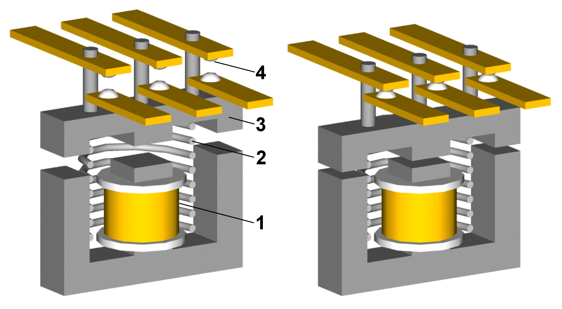 Three-phase contactor principle: 1. Coil, 2. Spring, 3. Armature, 4. Moving contact